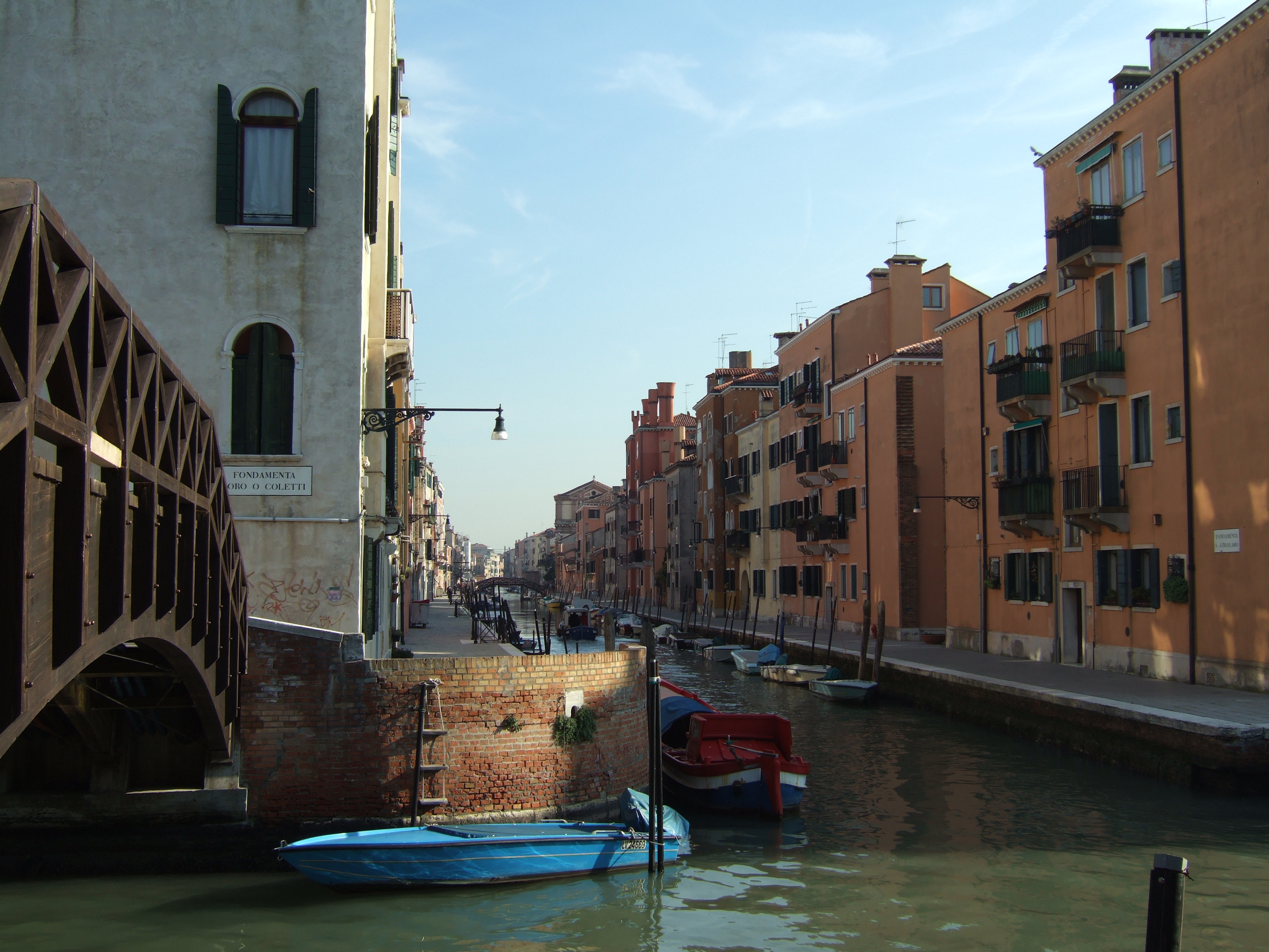 Rio de San Girolamo (Venice)